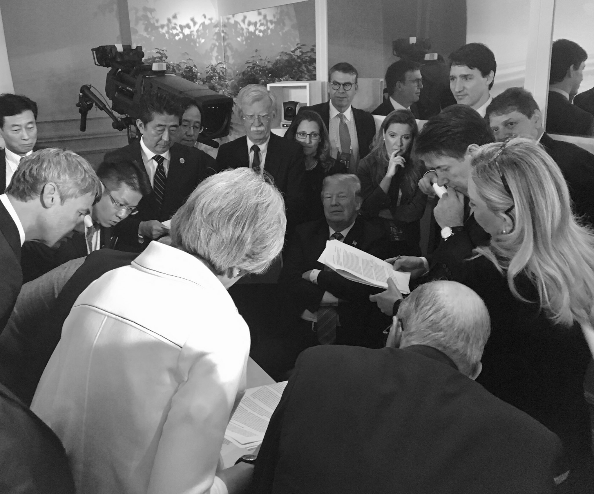 @POTUS meets with world leaders and negotiates on Trade, Iran, and National Security. #G72018 #BTS